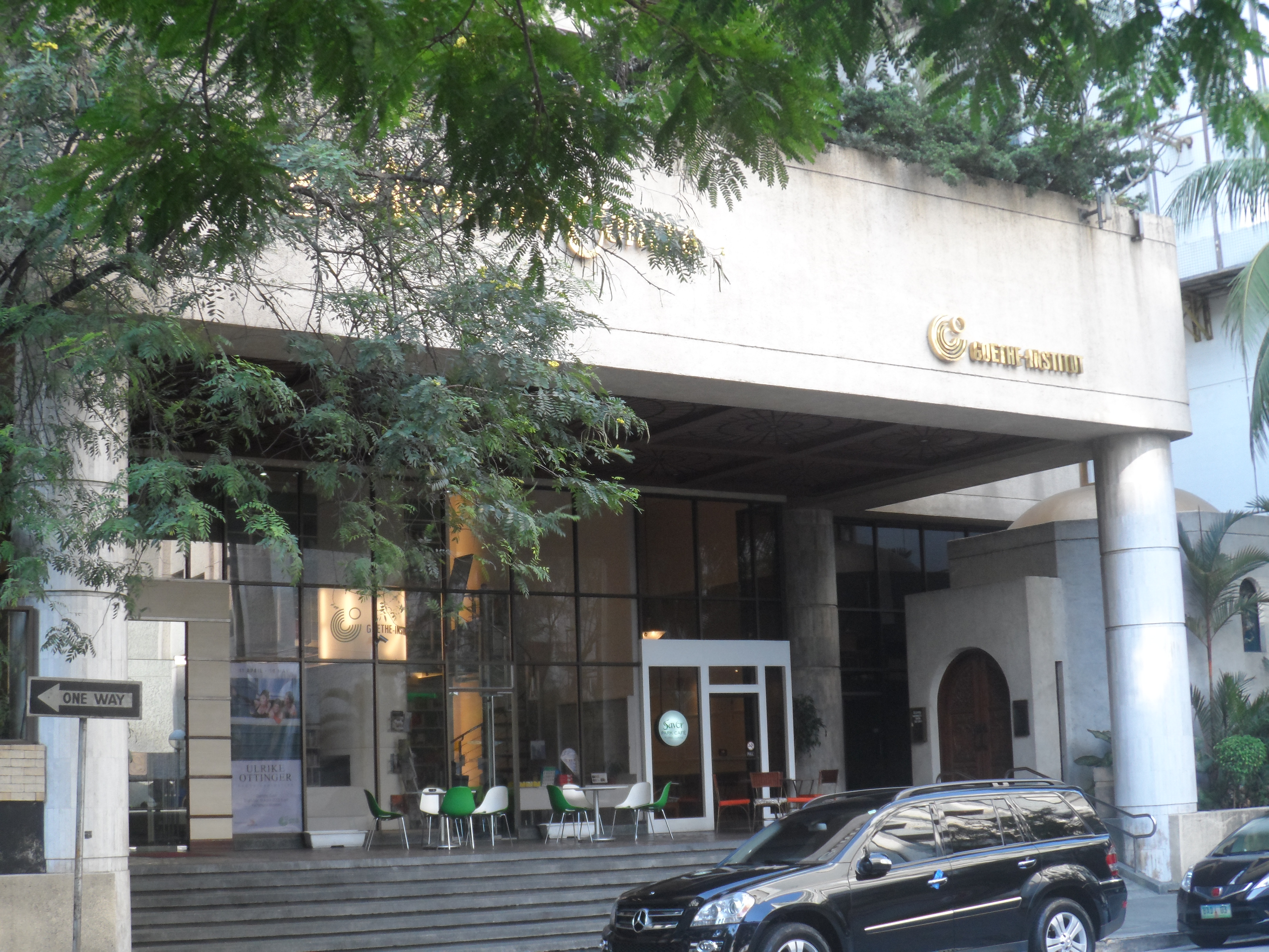 The Goethe-Institut Philippinen in Adamson Centre, Leviste Street, Salcedo Village, Makati City.